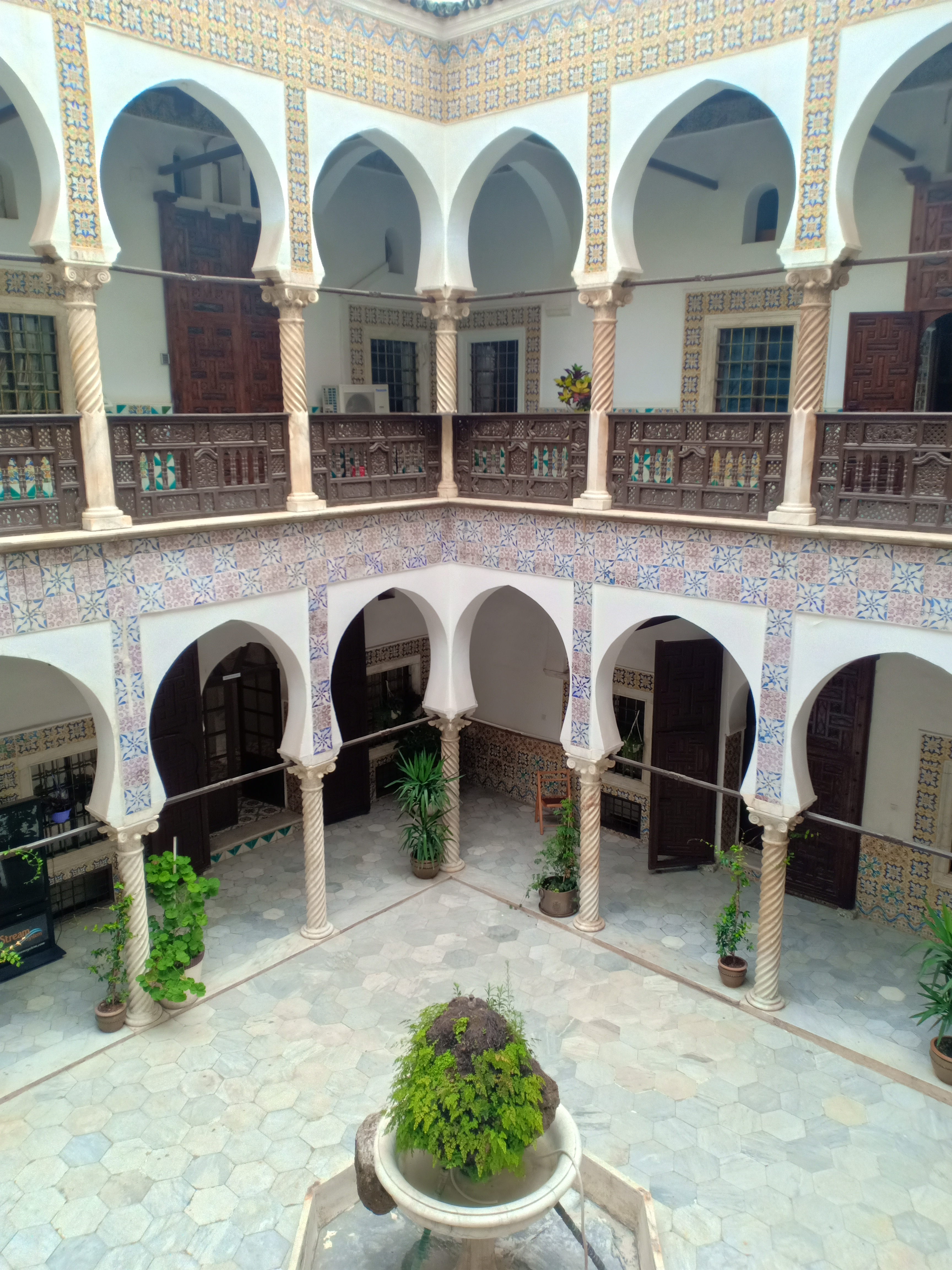 palais mustapha bacha